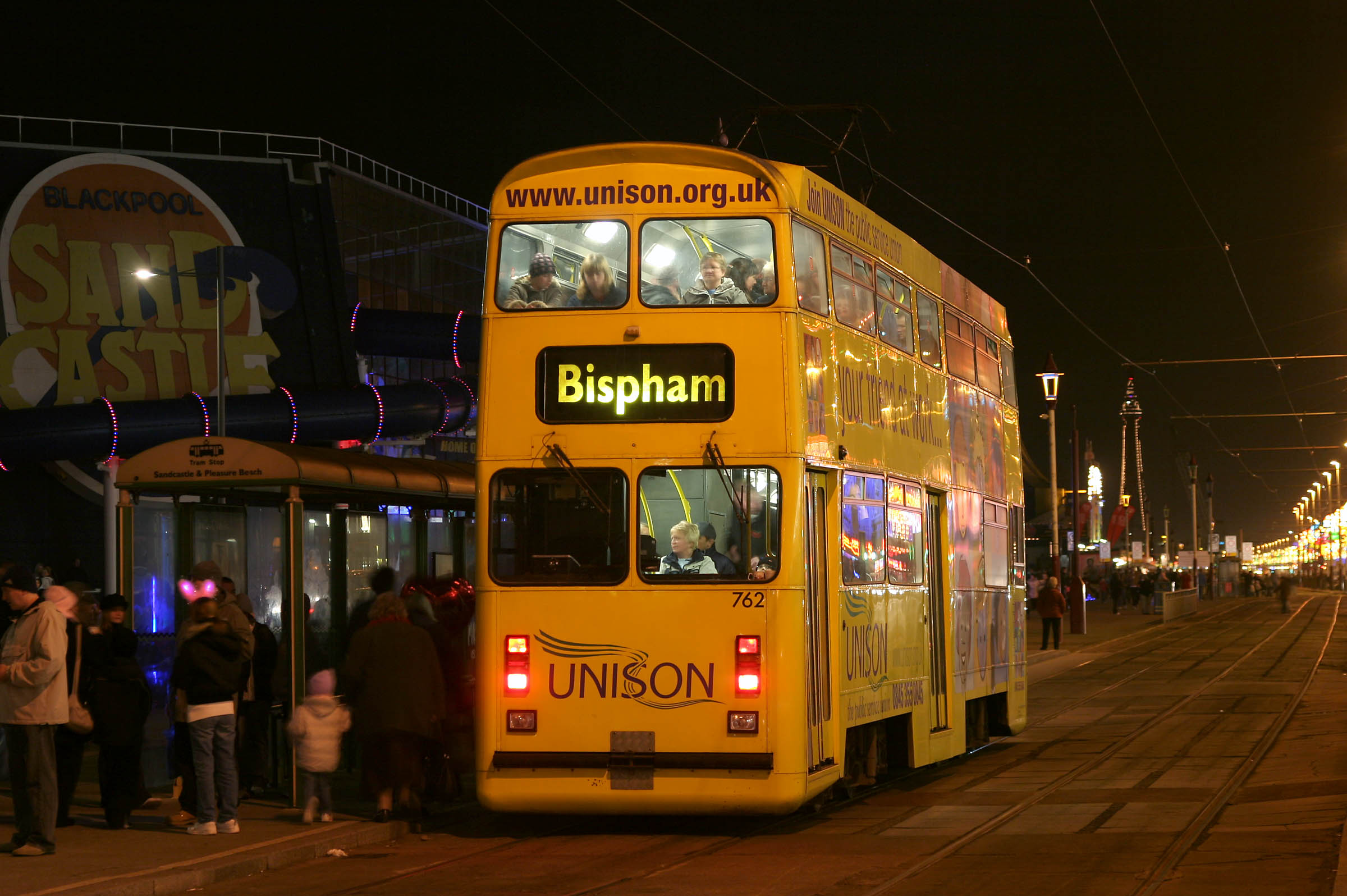 Author: Mark S Jobling